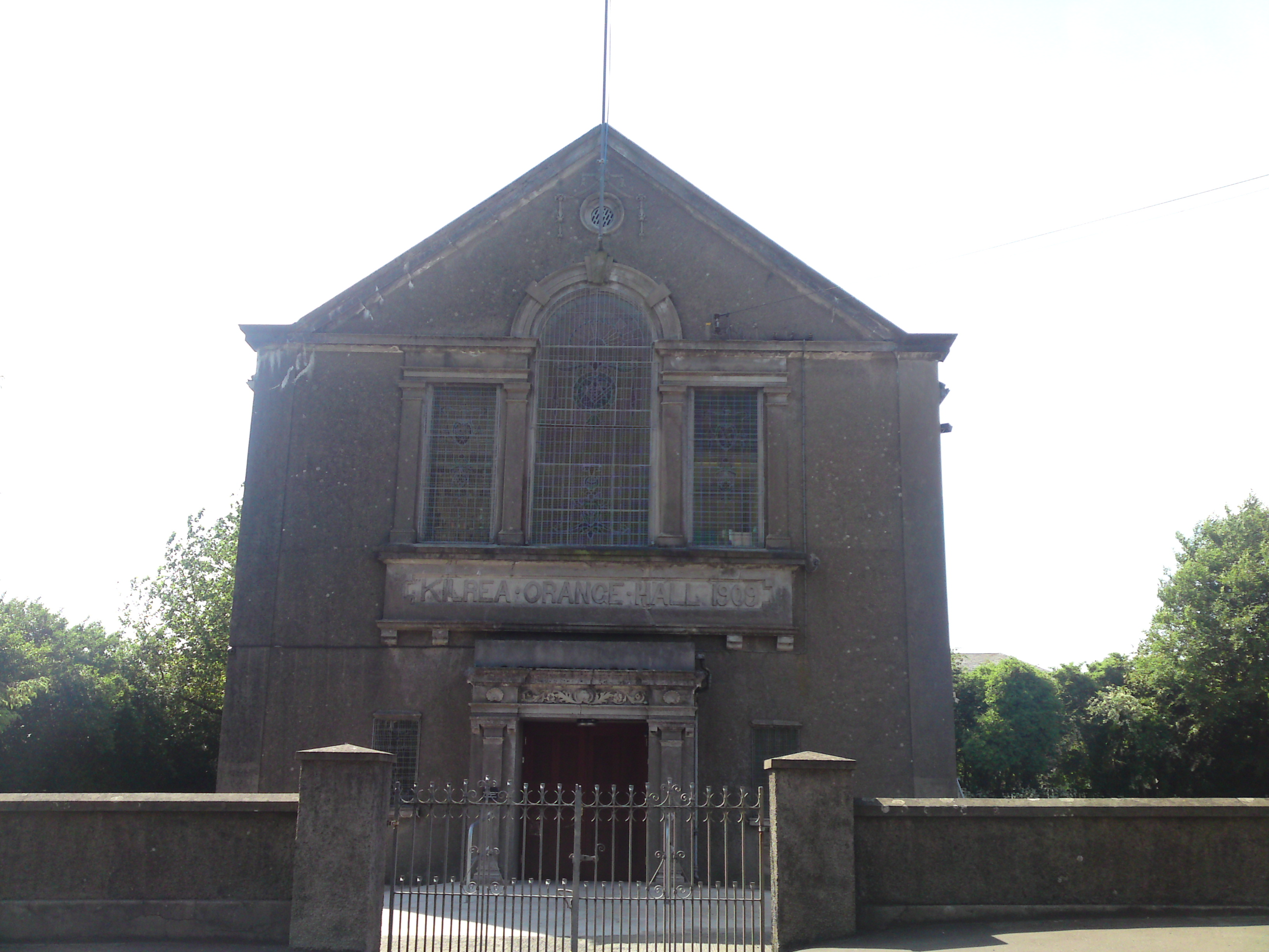 Kilrea Orange Hall situated in New Row,Kilrea.It appears to be quite old and the windows are grilled to prevent sectarian attacks.